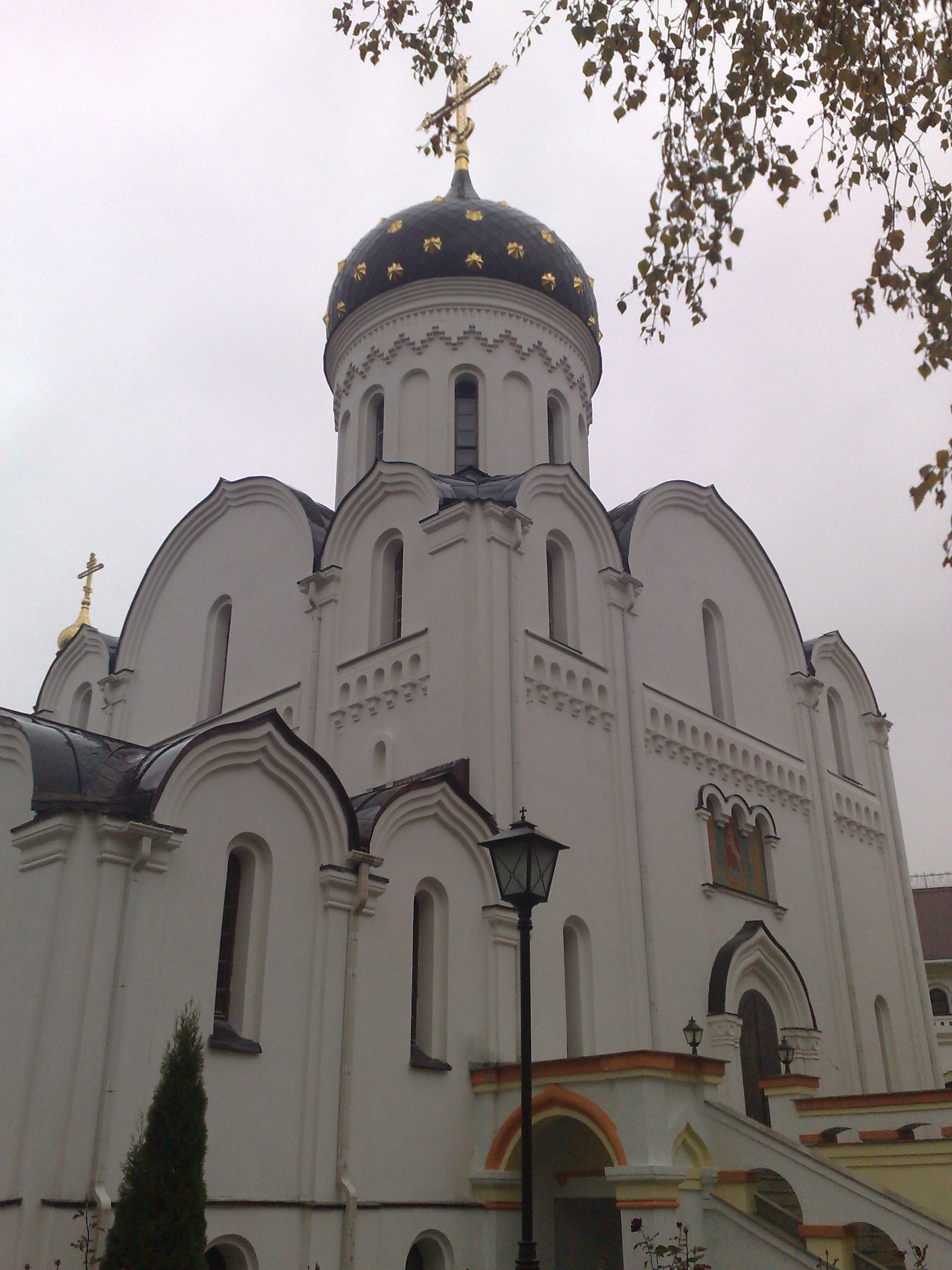 Minsk. Svyato-Elizavetinsky (St. Elisabeth) Monastery